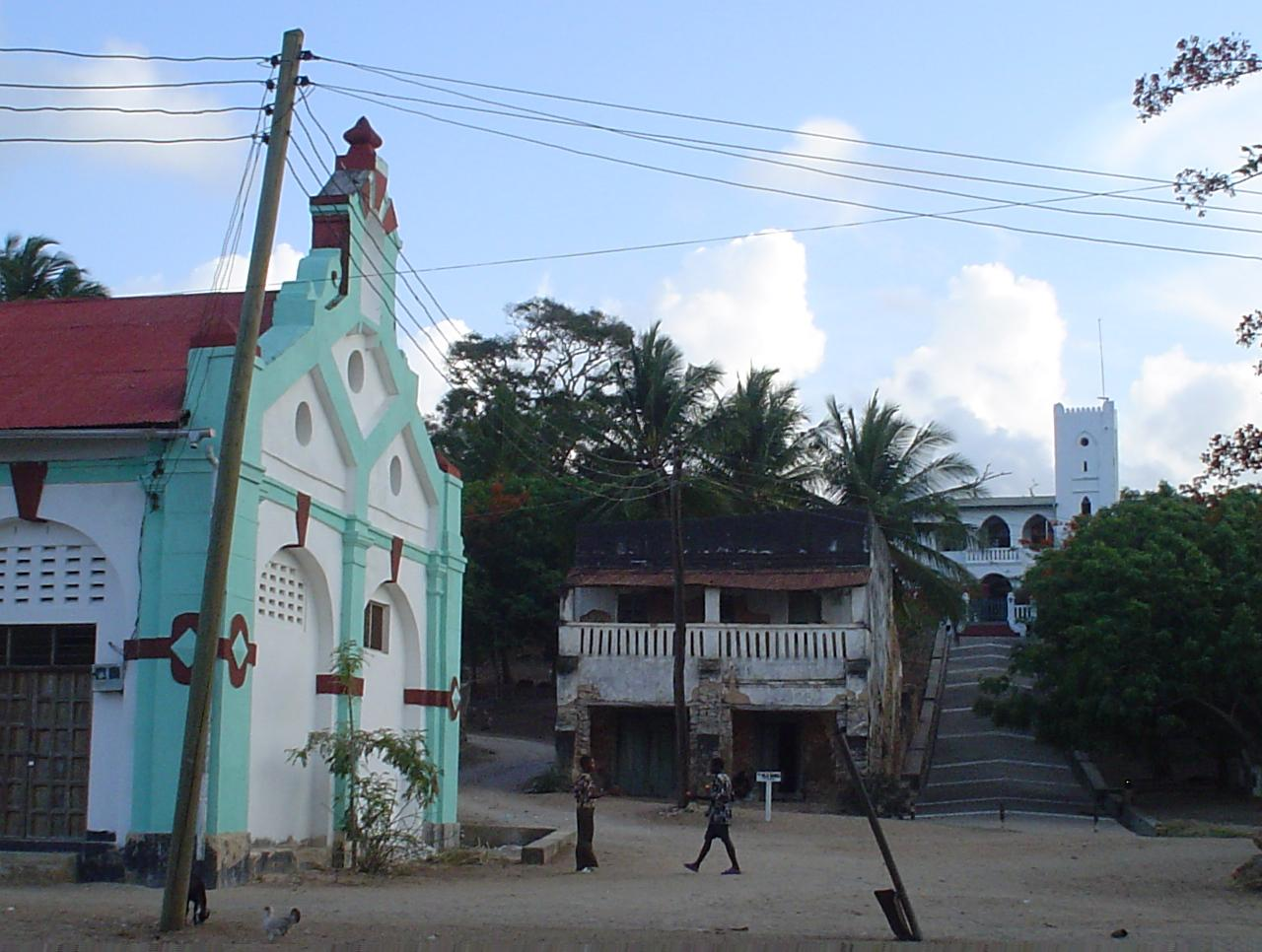 Downtown Mikindani with church and stairway to the Old Boma Hotel